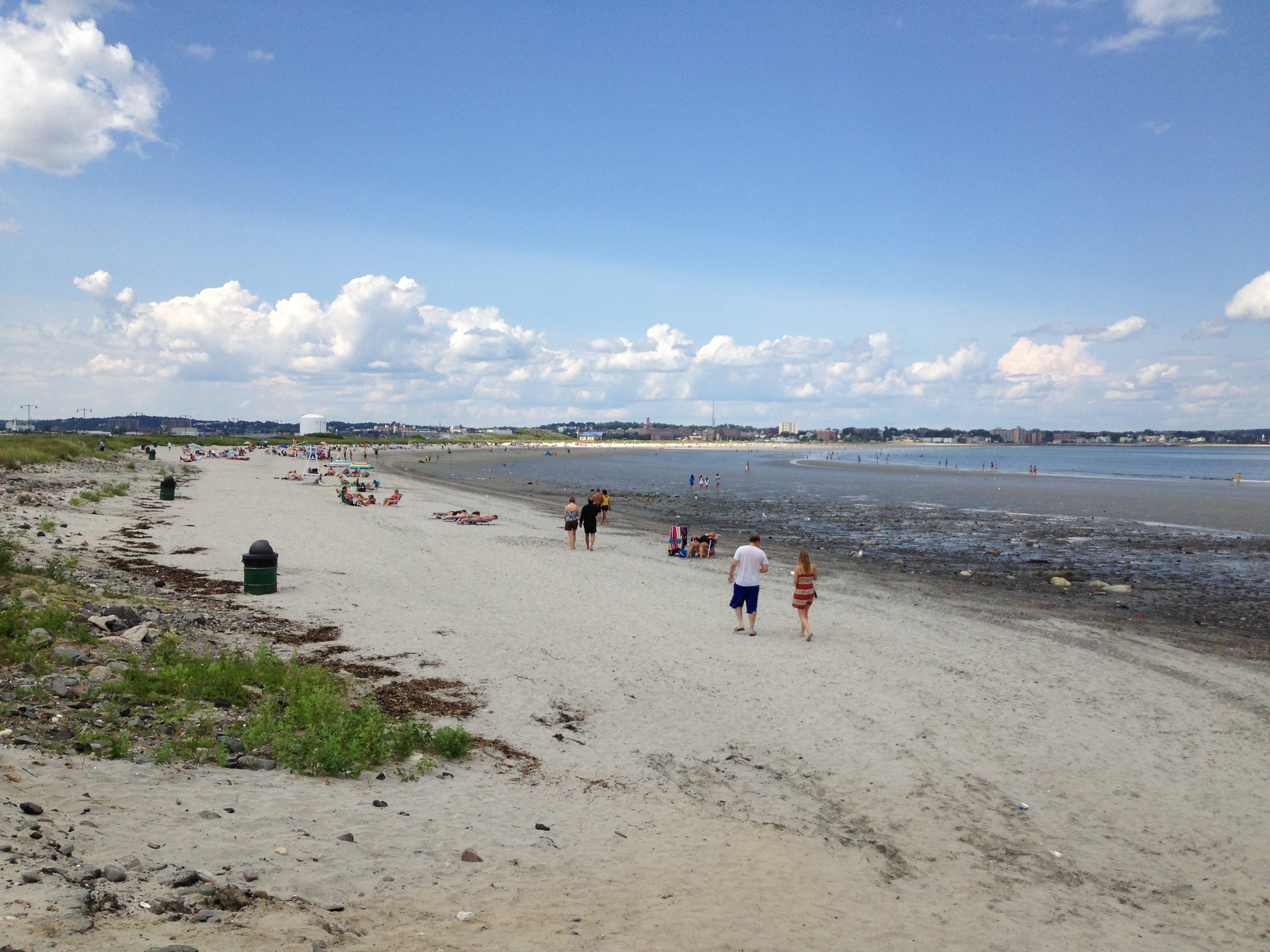 Looking down the beach on a busy summer's day.